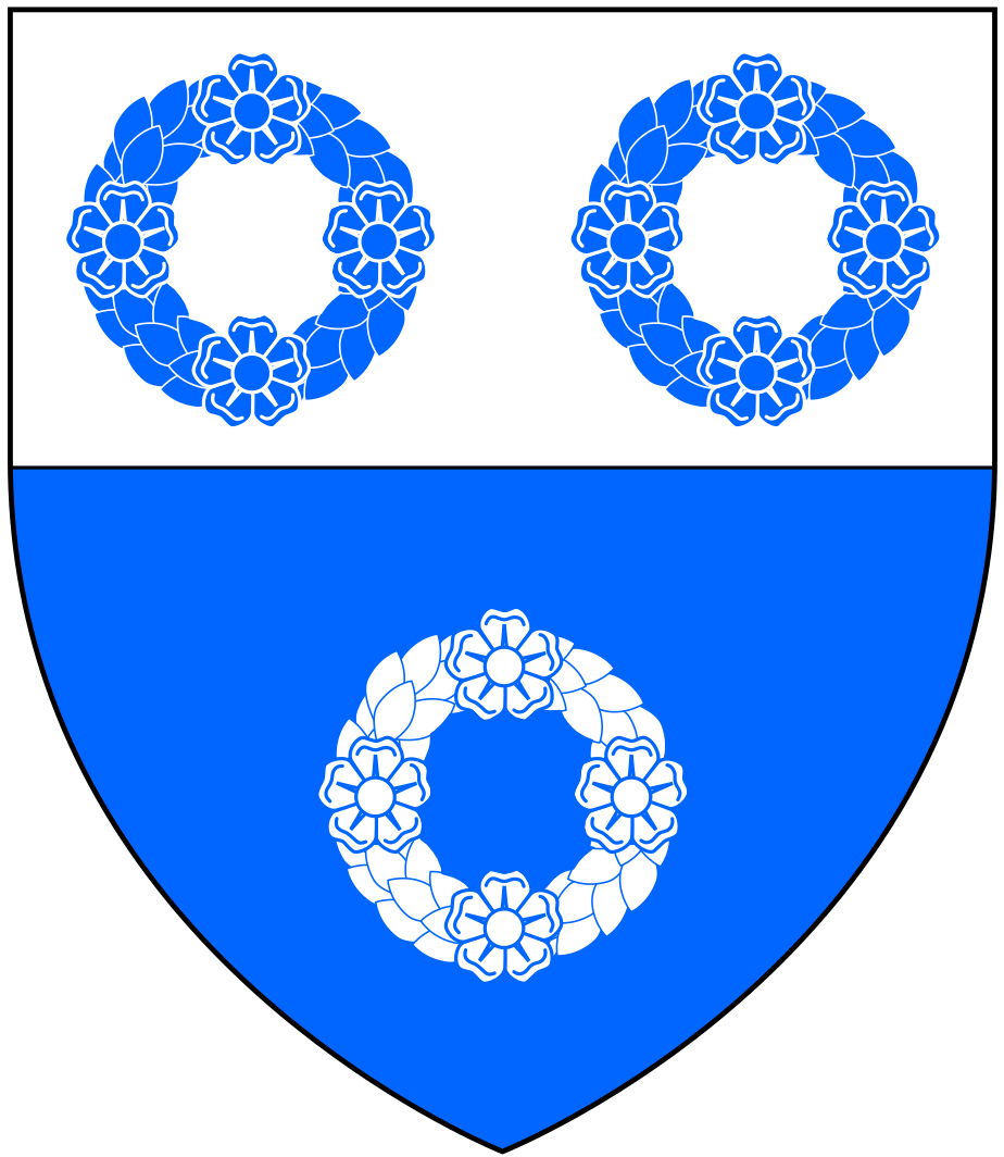 Arms of Duke family of Otterton, Devon: Per fesse argent and azure, three chaplets counterchanged. Source: Pole, Sir William (d.1635), Collections Towards a Description of the County of Devon, Sir John-William de la Pole (ed.), London, 1791, p.480; Robson, Thomas, The British Herald. However, the blazon is Per fesse or and azure, three chaplets counterchanged, according to Vivian, Lt.Col. J.L., (Ed.) The Visitation of the County of Devon: Comprising the Heralds' Visitations of 1531, 1564 & 1620, Exeter, 1895, p.311. These arms may be seen (without tinctures) in Otterton Church (1589 stone monument & 17th.c. brasses) and sculpted impaled by Rolle on the parapet of St Anne's Walk, Barnstaple, built 1708, partly financed by Robert Rolle (d.1710), MP, of Stevenstone, husband of Elizabeth Duke, daughter of Richard Duke (1652-1733), MP, of Otterton.